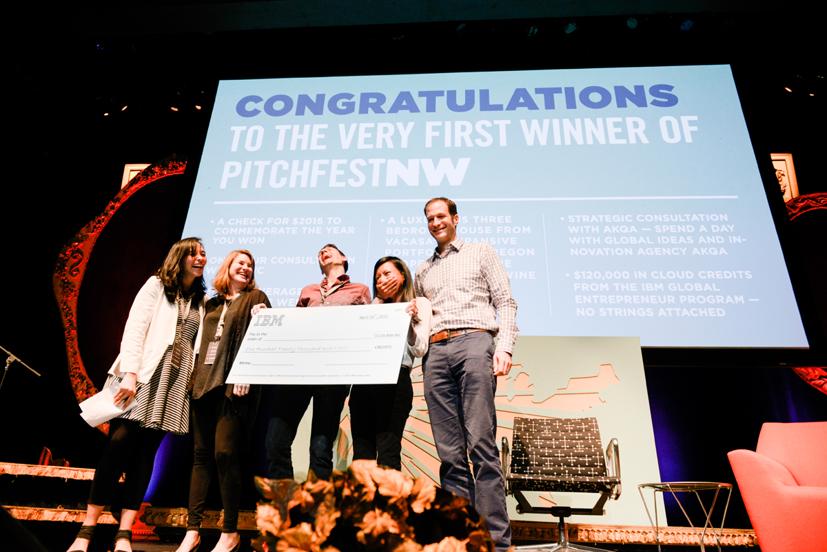 Poda Foods PitchfestNW